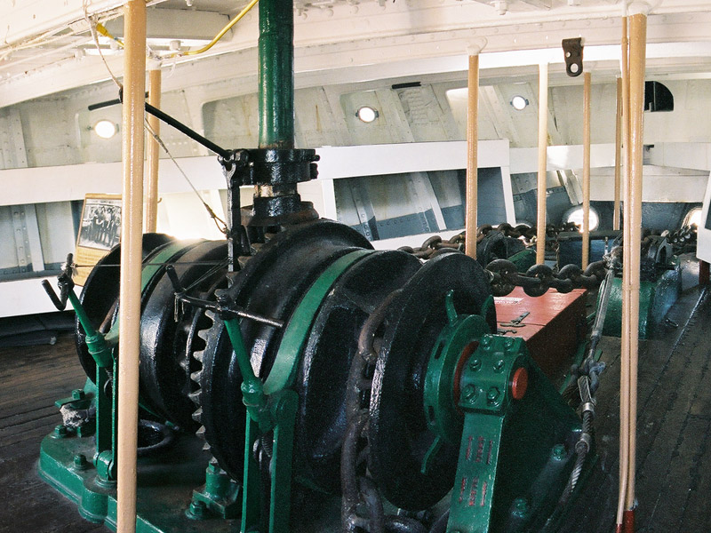 Anchor windlass in the Forecastle of the sailing ship Balclutha. Composite image of two photographs by User:Leonard G.